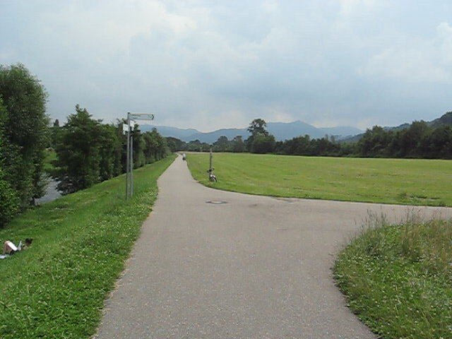 Cyclepath alongside the River Dreisam near Freiburg